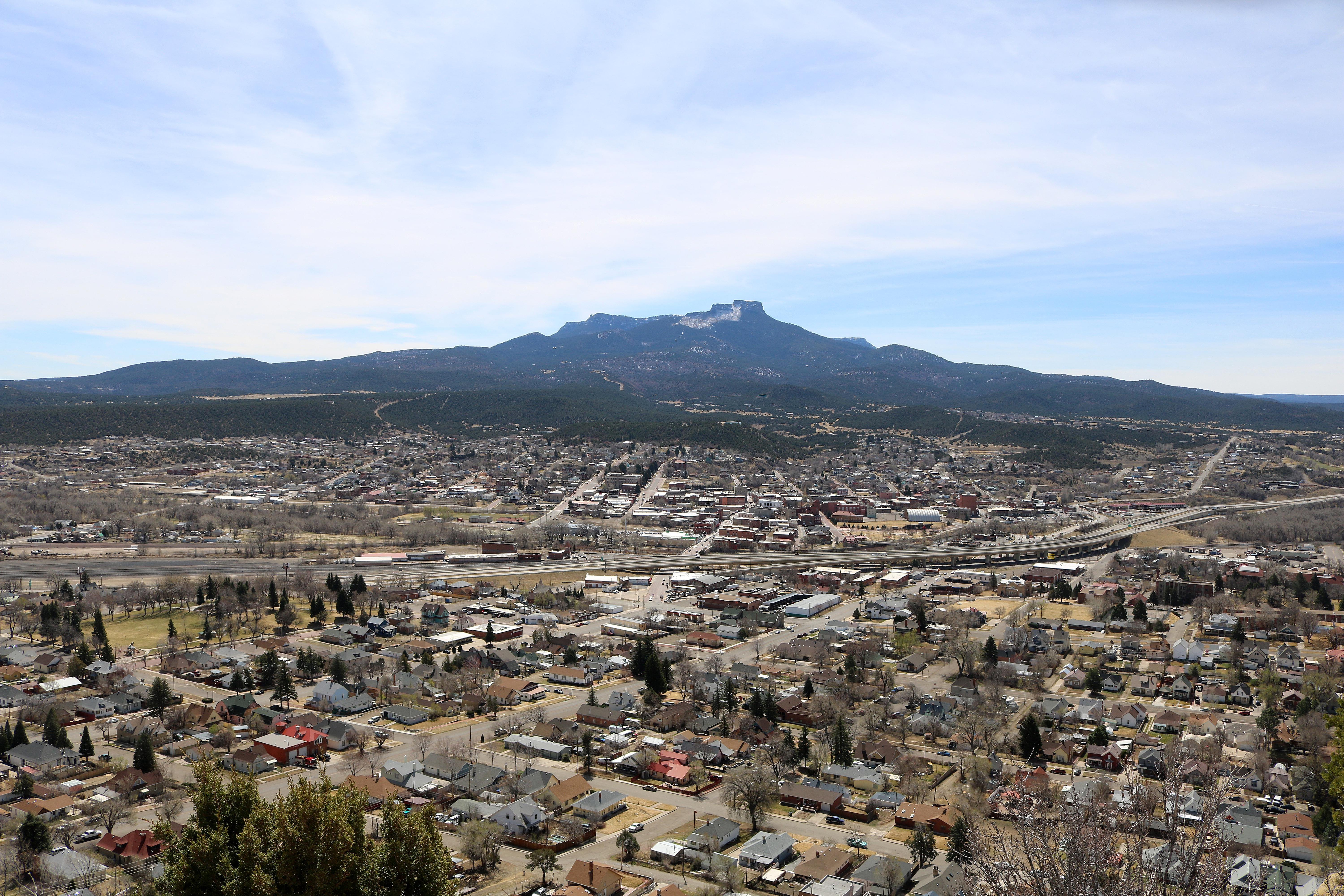 A view of Trinidad, Colorado from Simpsons Rest Overlook. The mountain is Fishers Peak.